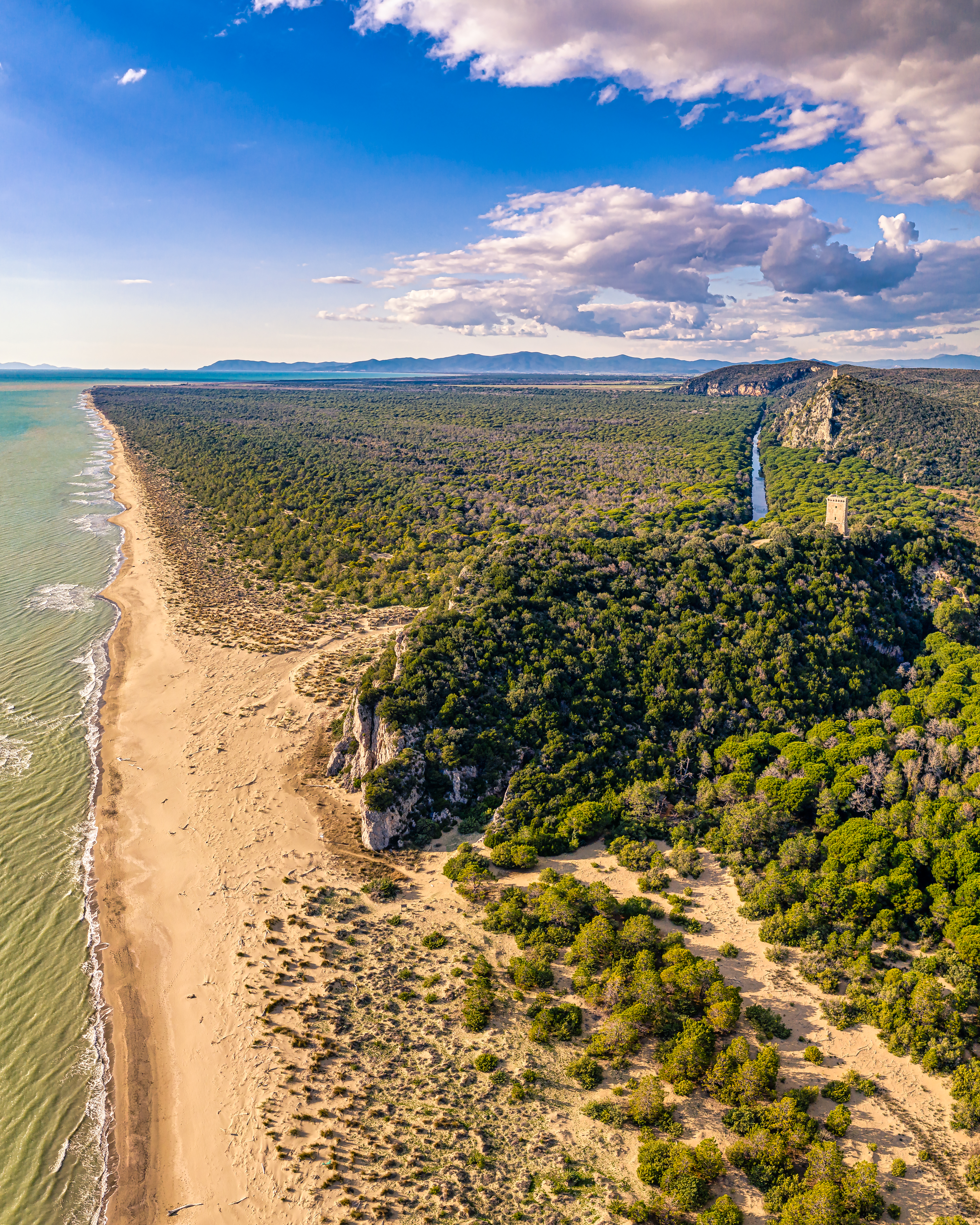 This aerial photo shows a big portion of the Maremma Regional Park in southern Tuscany. At the right the Torre di Collelungo, left of it the Canale Scoglietto.